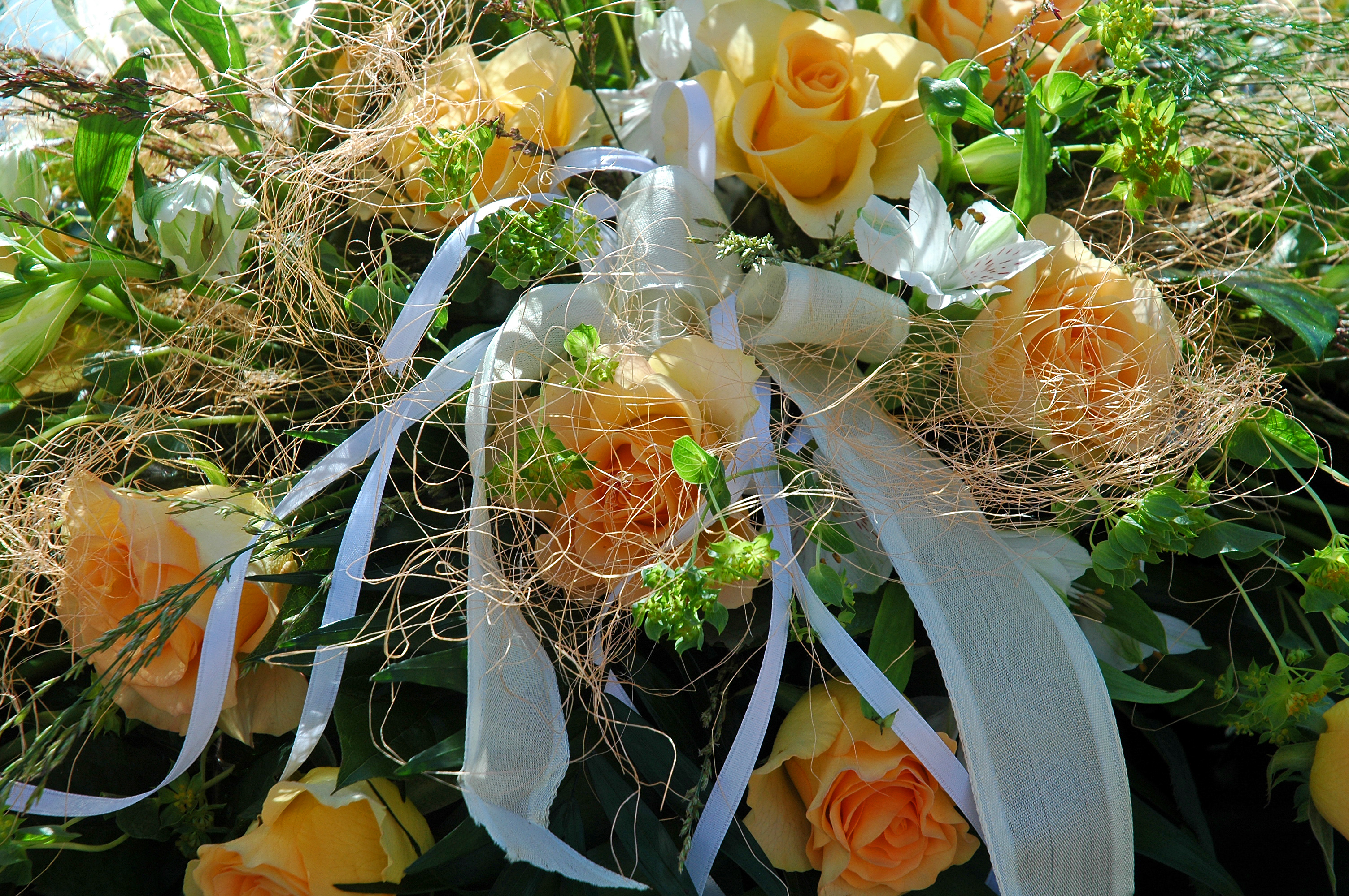 This image shows a close-up shot of flowers on a wedding car.